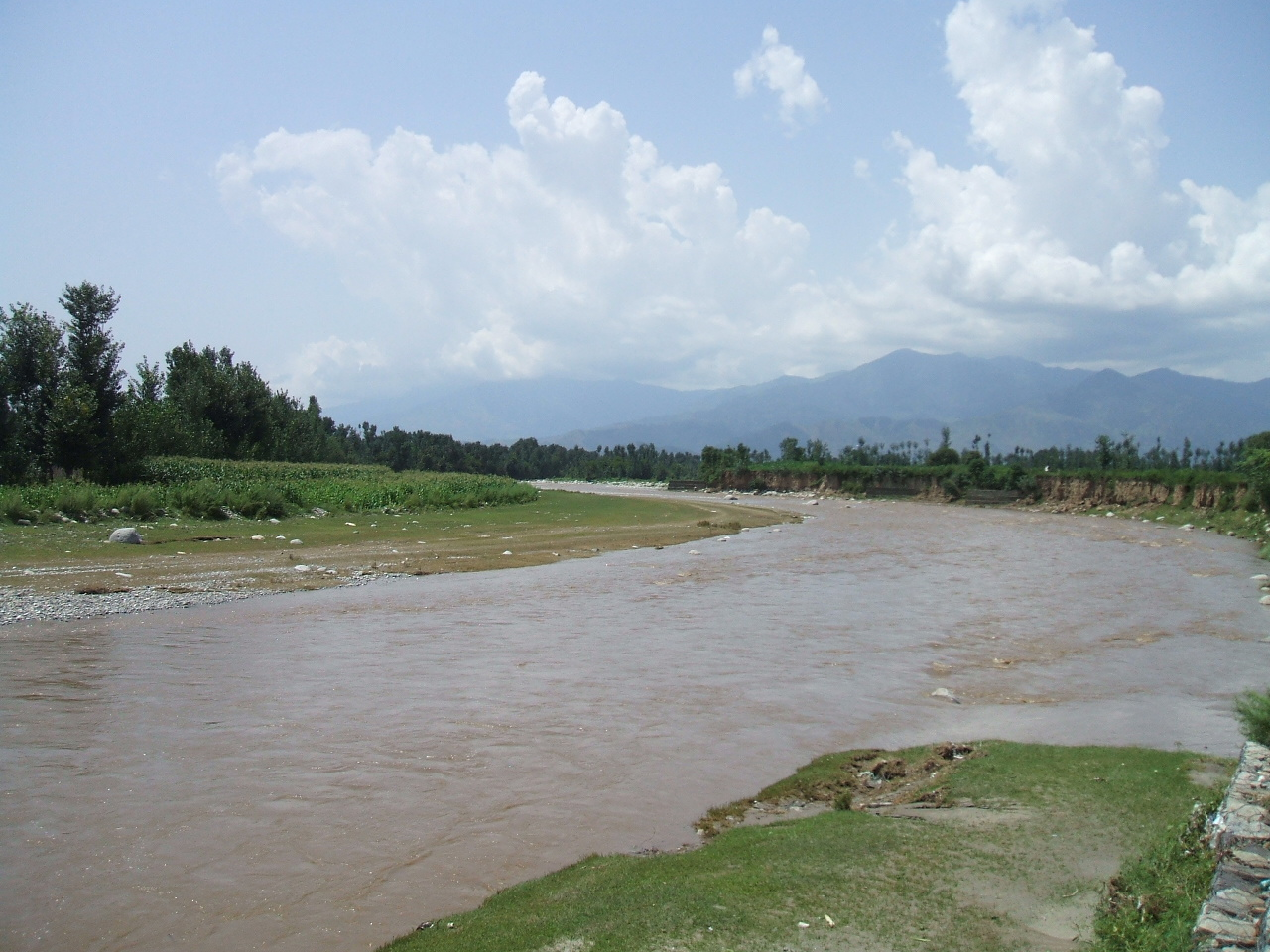 Along the Siran River in Baffa, a union council and town in Mansehra District, Khyber Pakhtunkhwa (formerly NWFP), Pakistan.